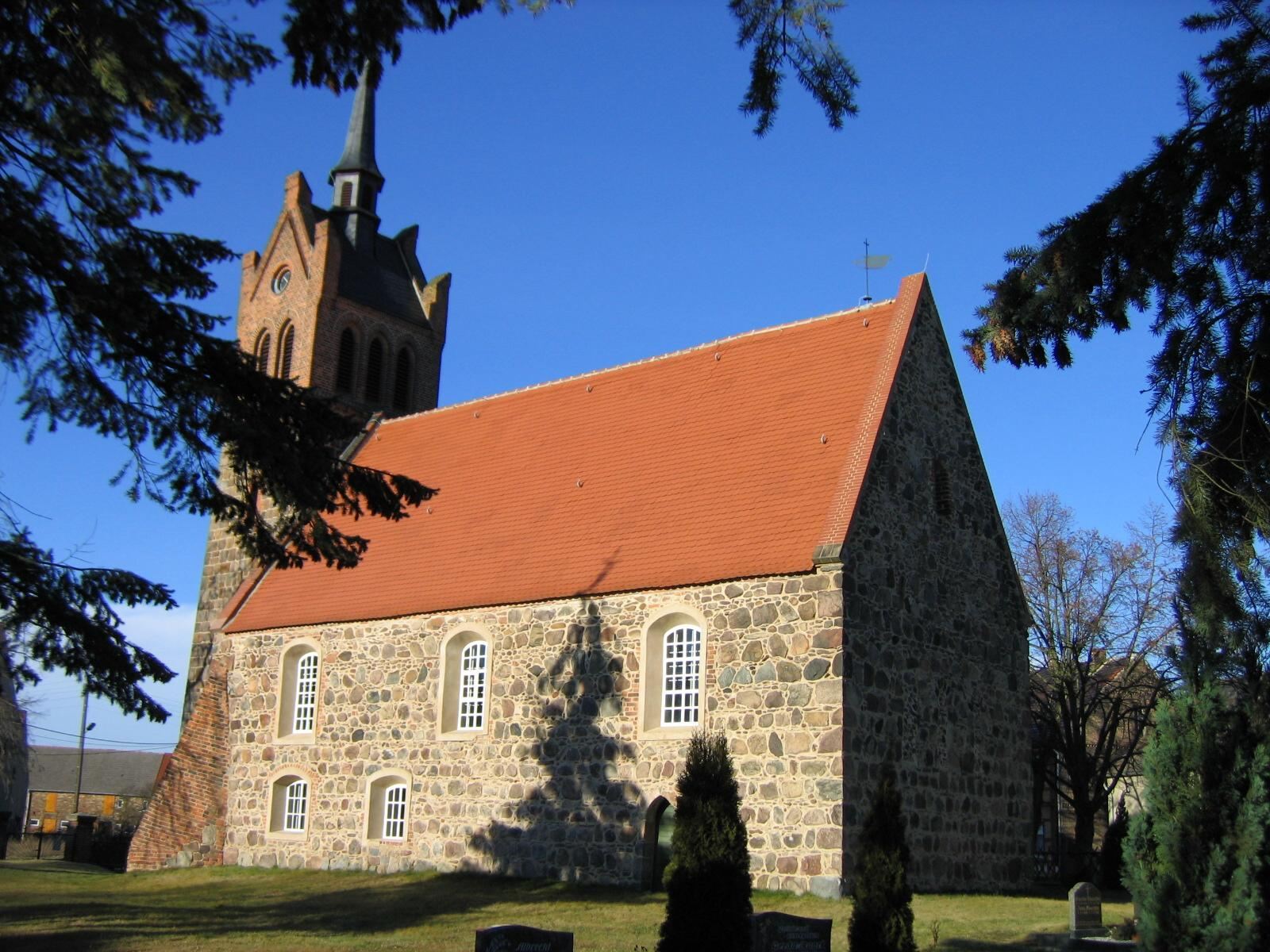 Rural church of Sernow, Gem. Niederer Fläming, Lkr. Teltow-Fläming, Brandenburg, Germany, view from west